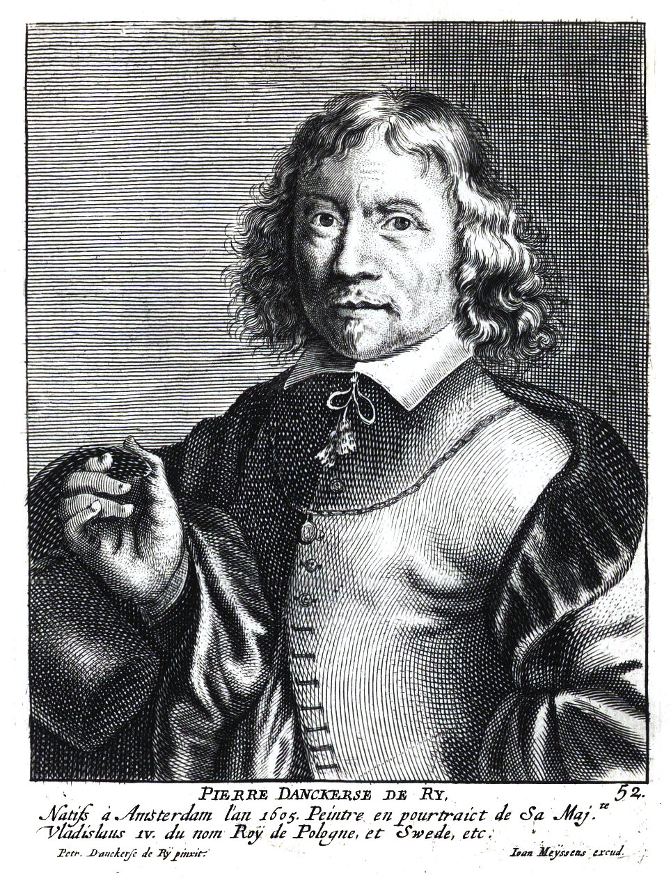 Print of the Dutch painter Pieter Dankerts de Ry in the book Het Gulden Cabinet, by Cornelis de Bie.